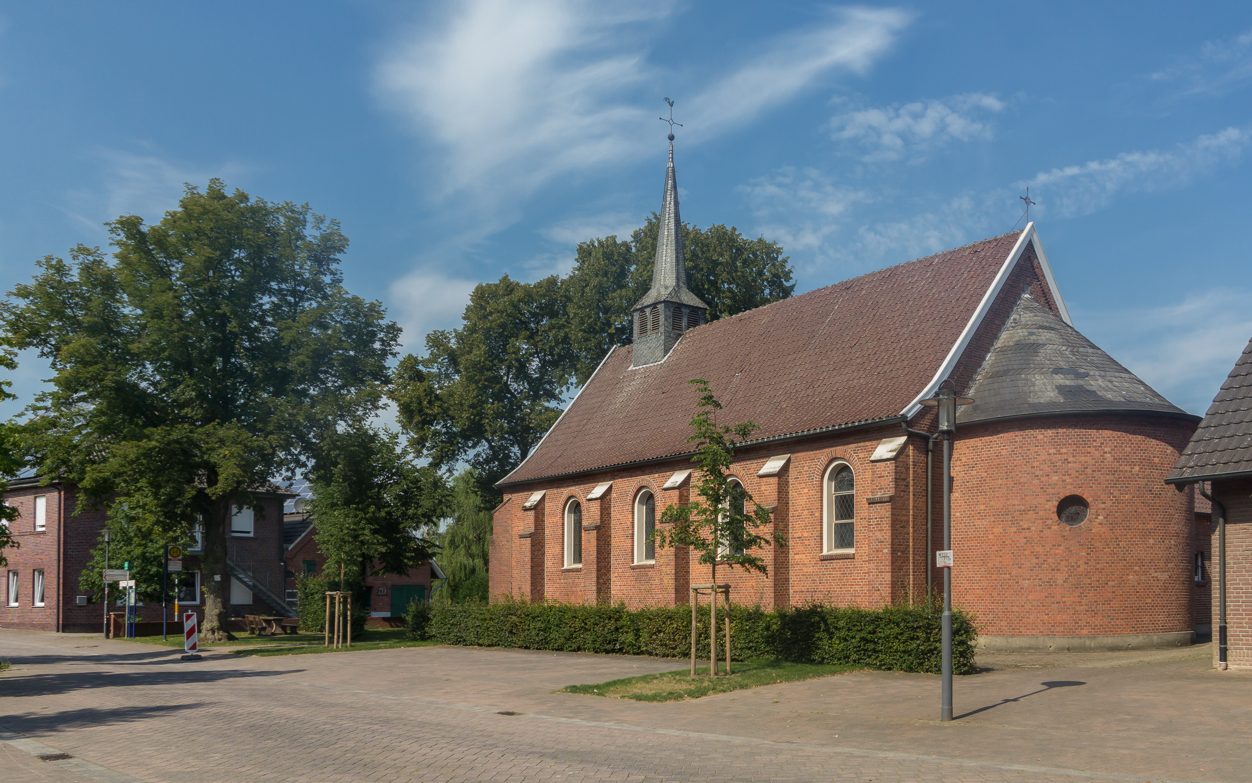 Vreden, Oldenkott-Wennewick, catholic churh; Pfarrkirche Sankt Antonius This is a photograph of an architectural monument.